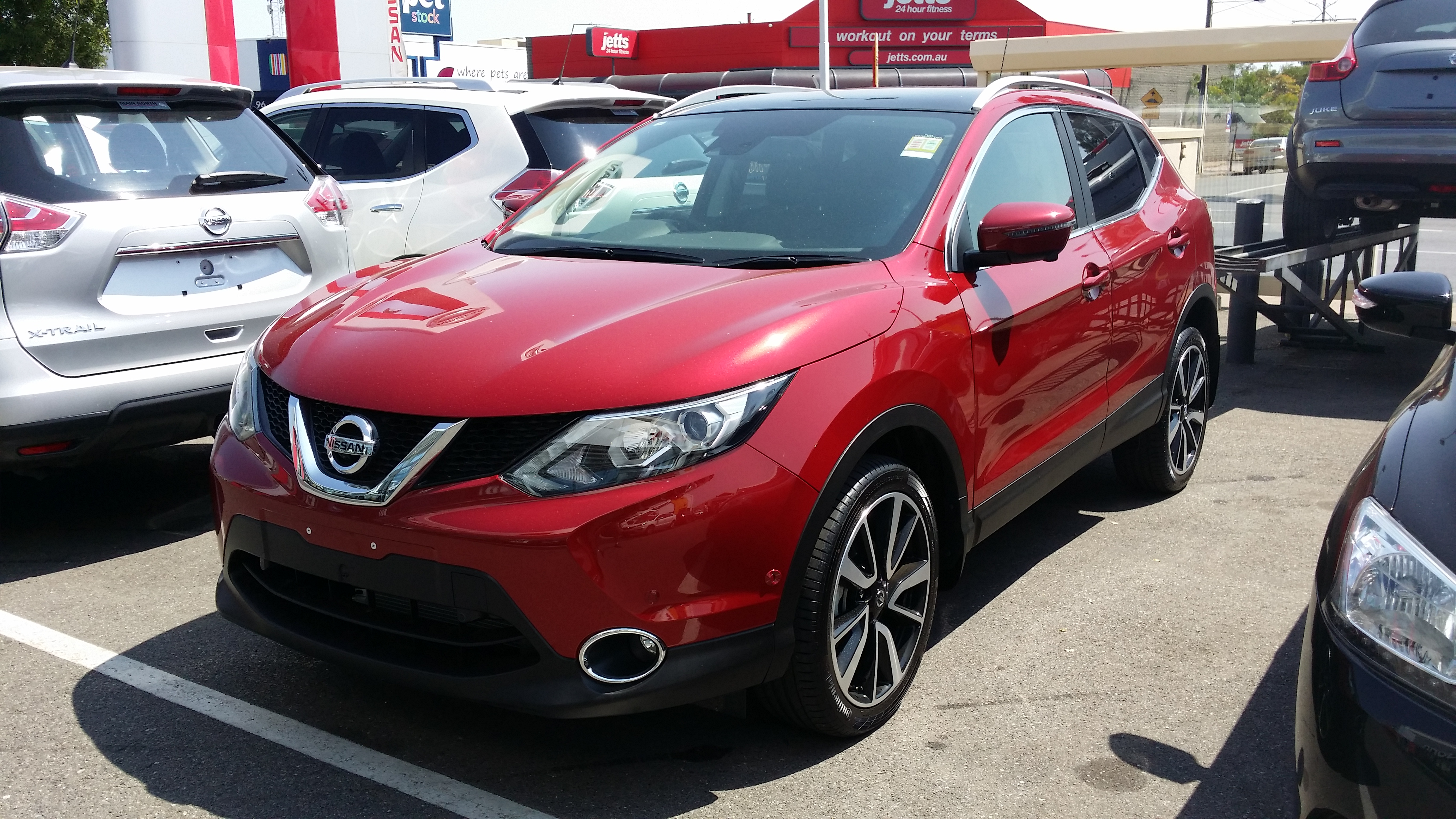 The first generation Nissan Qashqai was known as the Nissan Dualis in Australia and Japan and towards the end of it's model life, was a big seller for the company here. When the second generation was launched, Nissan Australia dropped the Dualis badge and went with the global name 'Qashqai'. So far, sales haven't reached the heights of the Dualis, but sales have picked up in the past few months. Renault's recently launched Renault Kadjar, which is based on the Nissan Qashqai, has not been confirmed by Renault Australia to be sold here, but with Australia's huge appetite for anything SUV, I won't be surprised if it's eventually sold here. The Kadjar sit's above the Catpur but below the Koleos.